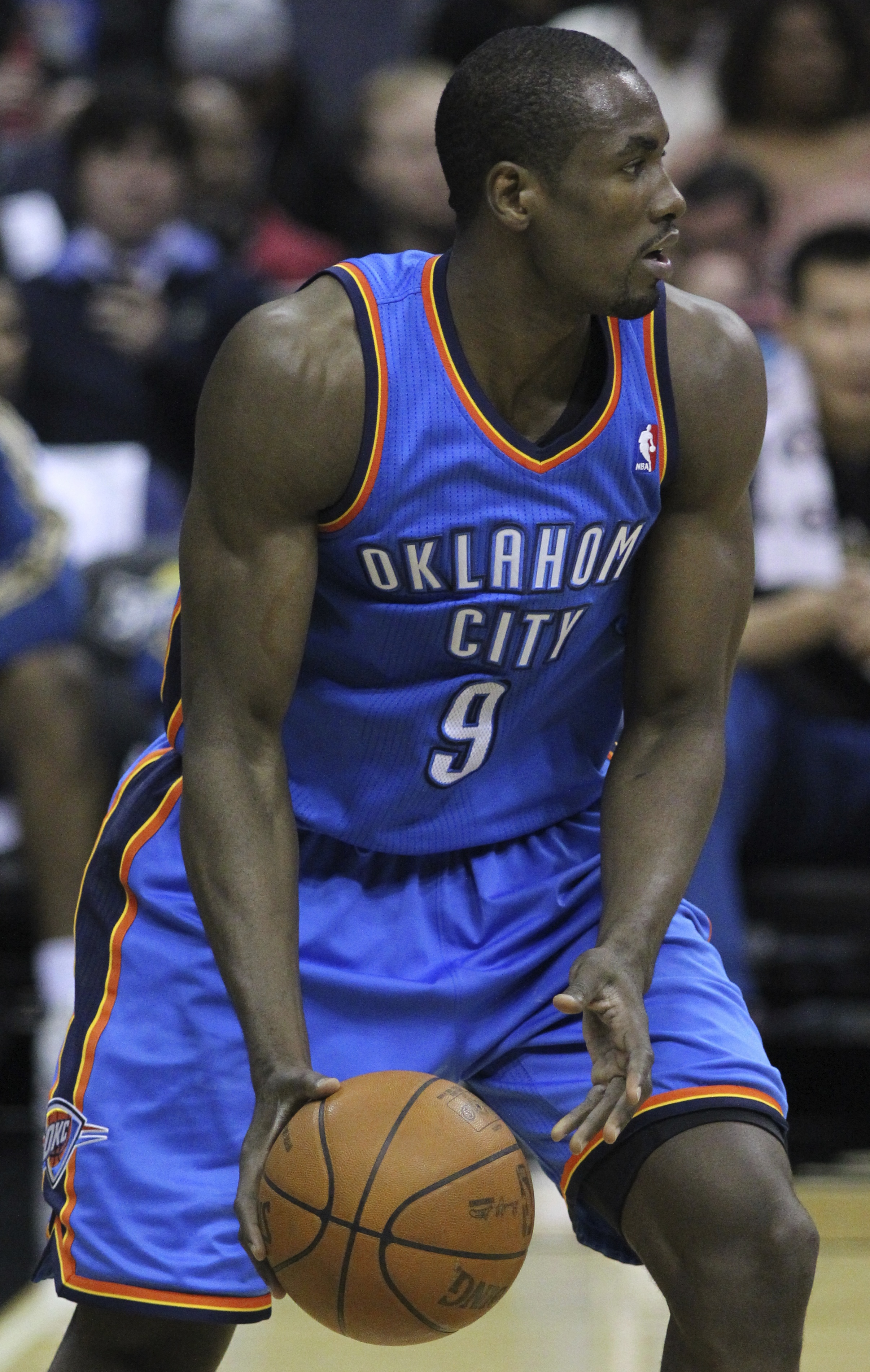 Serge Ibaka, basketball player from Oklahoma City Thunder